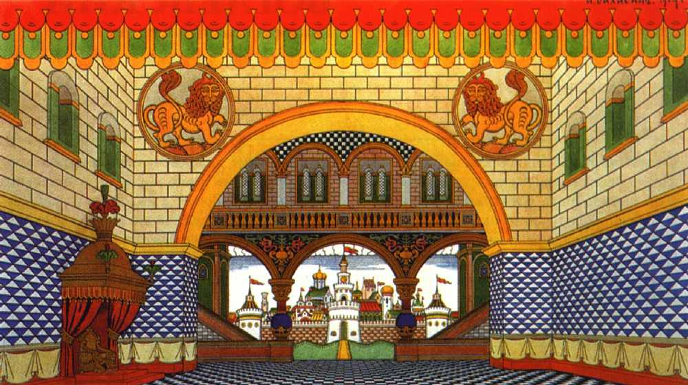 Palace of Dodona. Sketch of scenery for the first act of "The Golden Cockerel" the opera by Rimsky-Korsakov